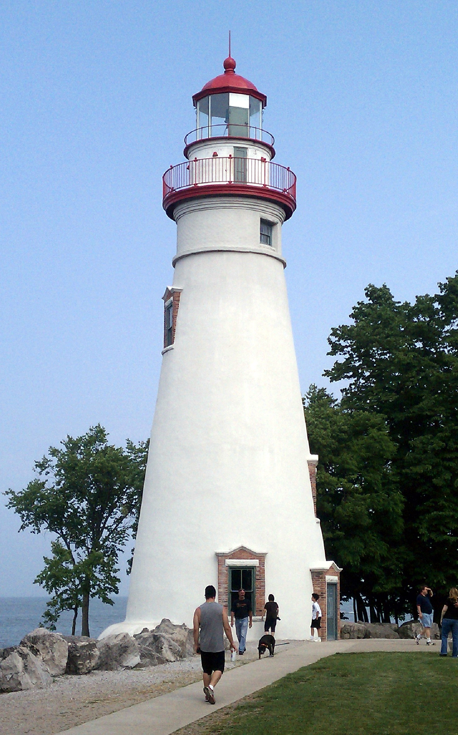 Marblehead Lighthouse in Marblehead, Ohio, USA